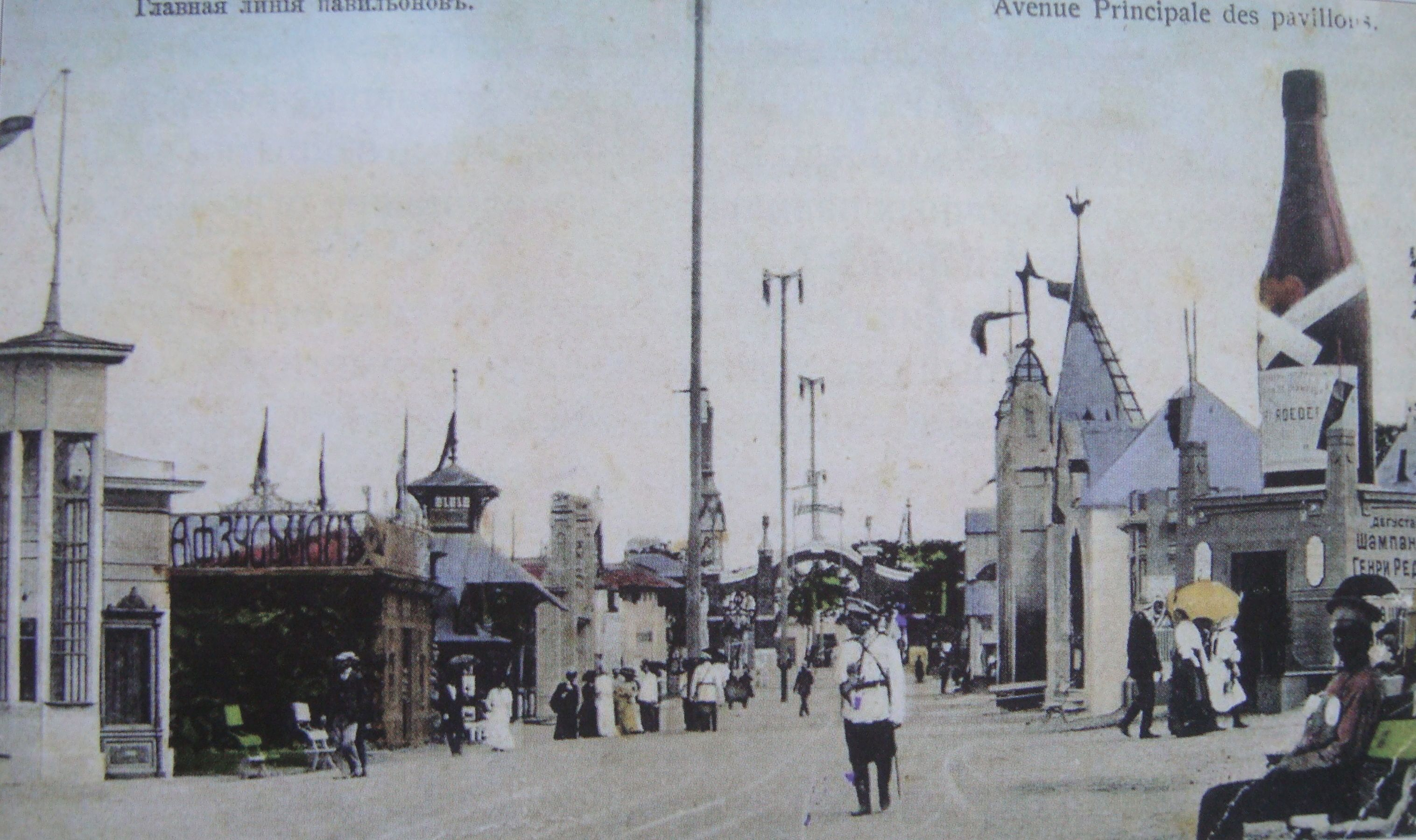 Old Carte Postale (Open Letter) issued in 1910 showed main alley of Odessa Exposition